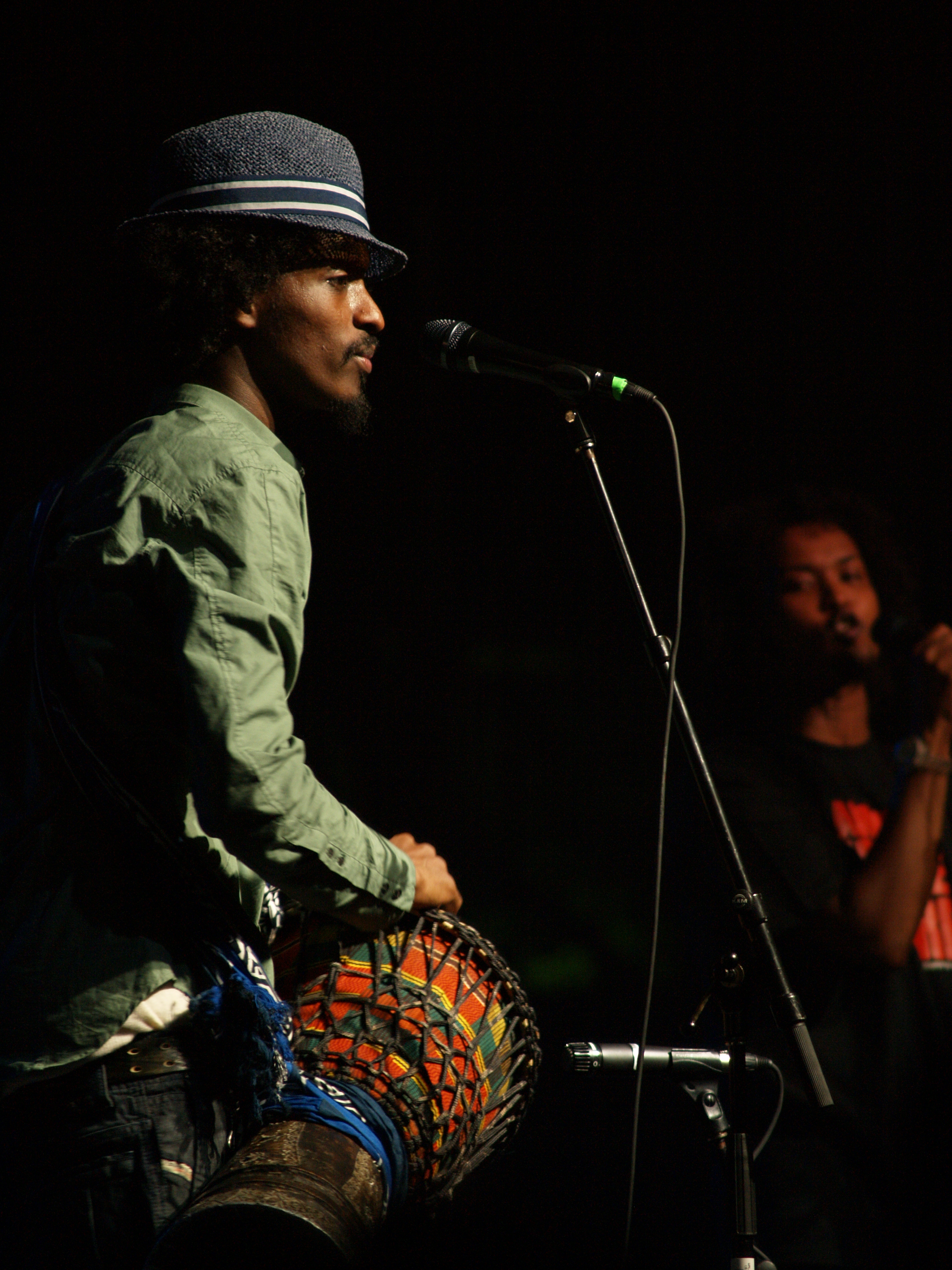 K’naan in Ottawa